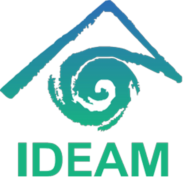 logo for Institute of Hydrology, Meteorology and Environmental Studies ,also known by its acronym in spanish (Ideam), is a government agency of the Ministry of Environment and Sustainable Development of Colombia.